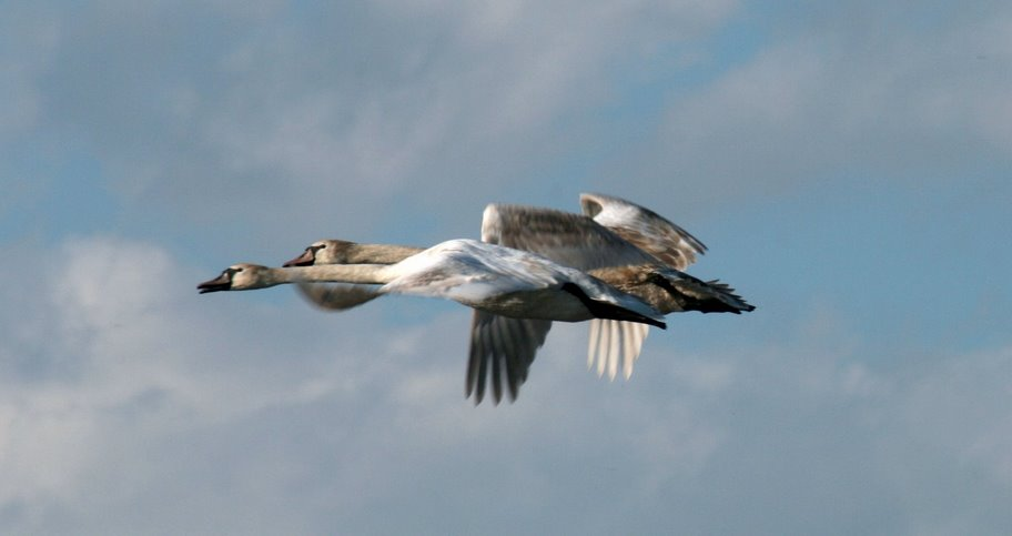 Cygnus olor over Schinias, Marathon, Greece